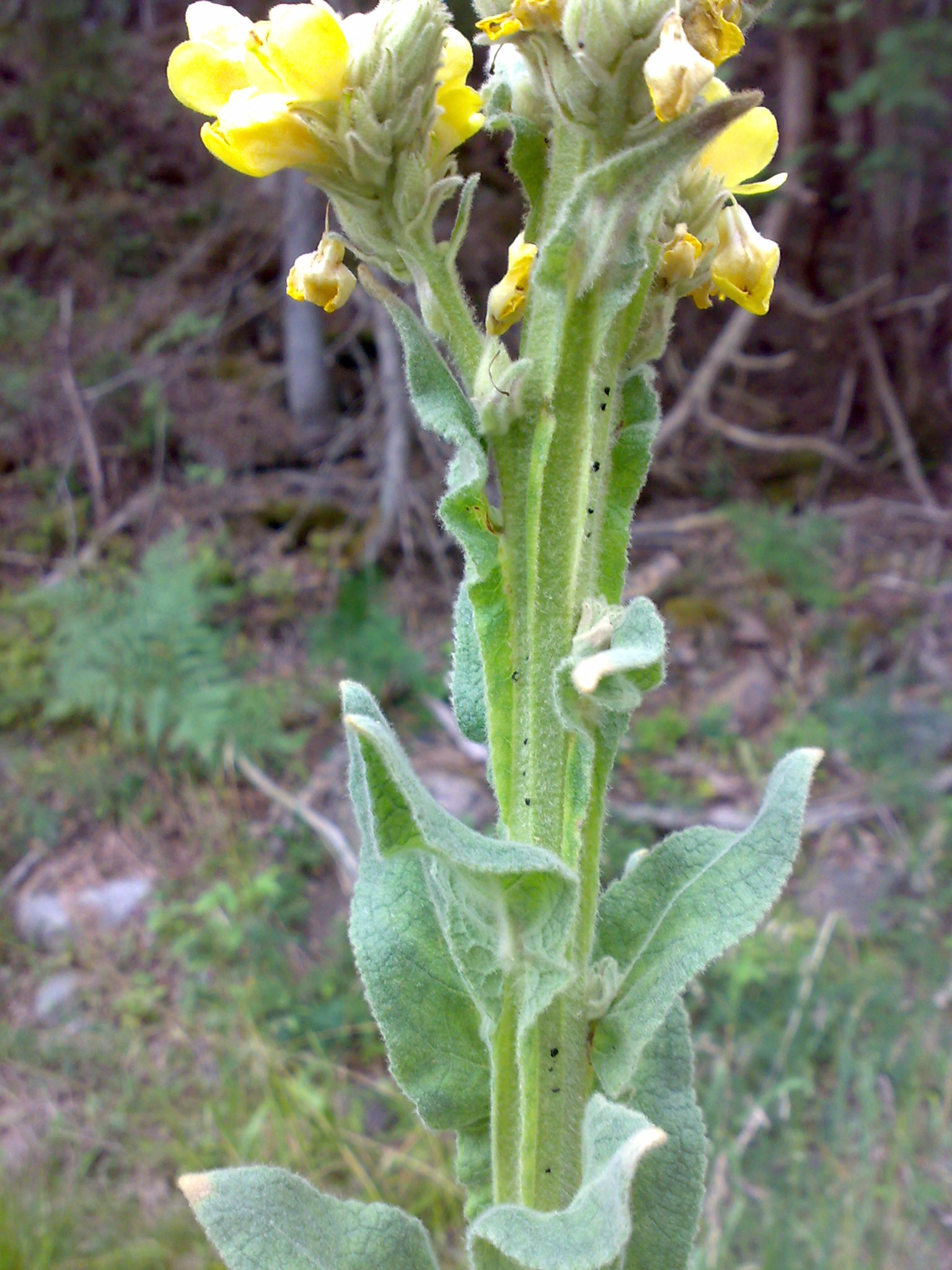 Verbascum thapsus in Hurum, Norway